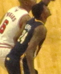 Jump ball before the Indiana Pacers/Chicago Bulls first playoff round game 1 in 2011.